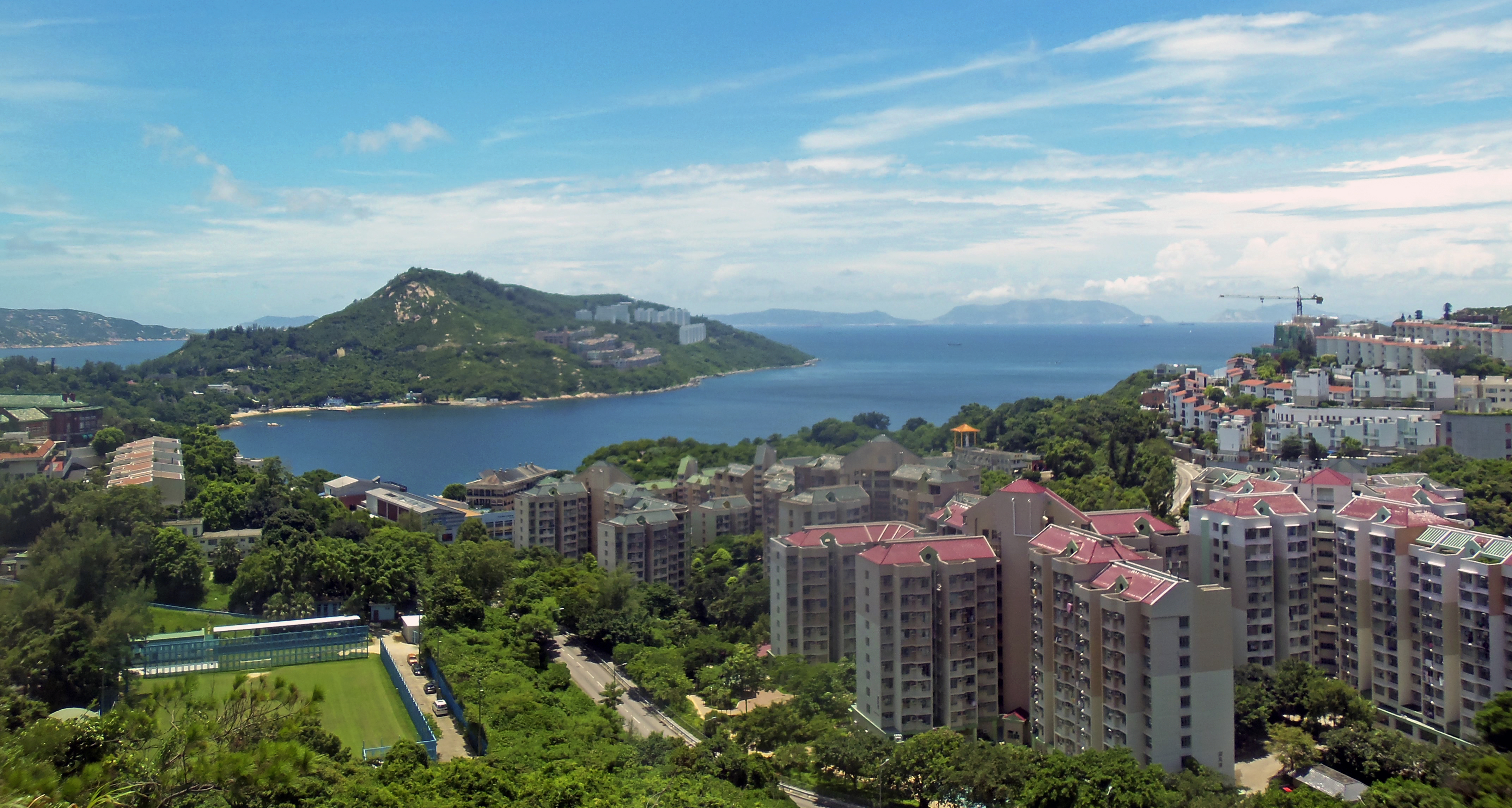 View over Stanley and Stanley Bay, with islands of the Wanshan Archipelago in the distance from the #260 bus traveling up Stanley Gap Road. Po Toi Islands are visible on the left